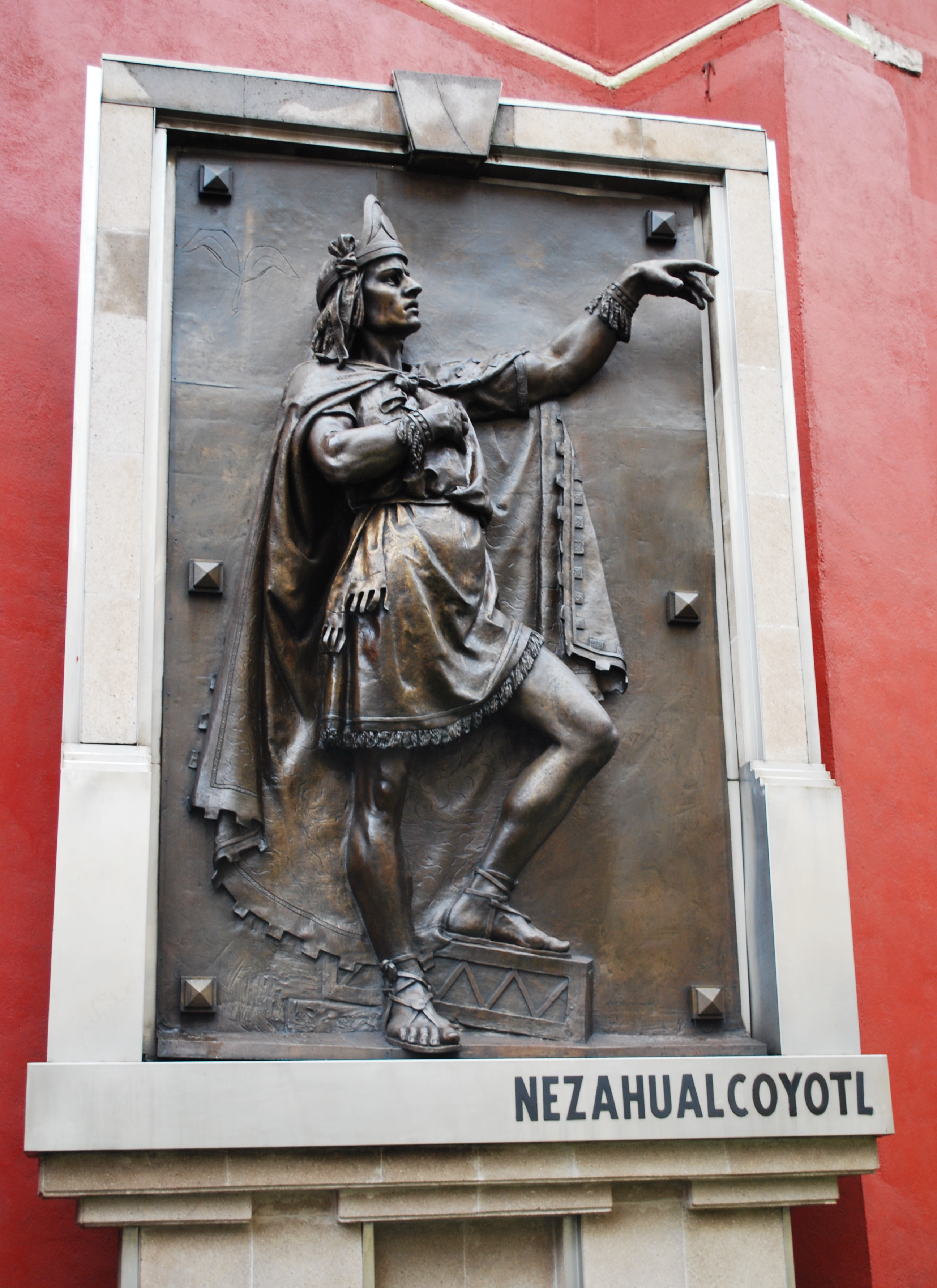 Bronze casting (1888-1889) of Nezahualcoyotl, by Jesús F. Contreras (see this plaque for more information). Location : Garden of the Triple Alliance, Filomeno Mata street, historical center of Mexico City.